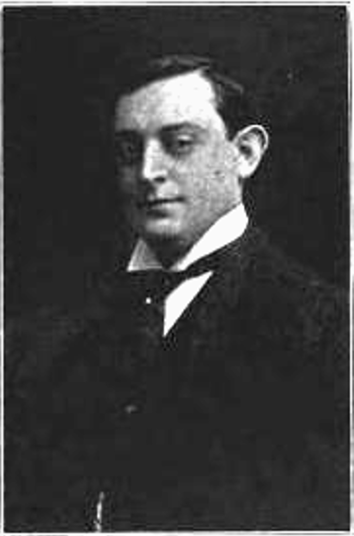 Banker Hellman Marco was the son of banker Herman W. Hellman